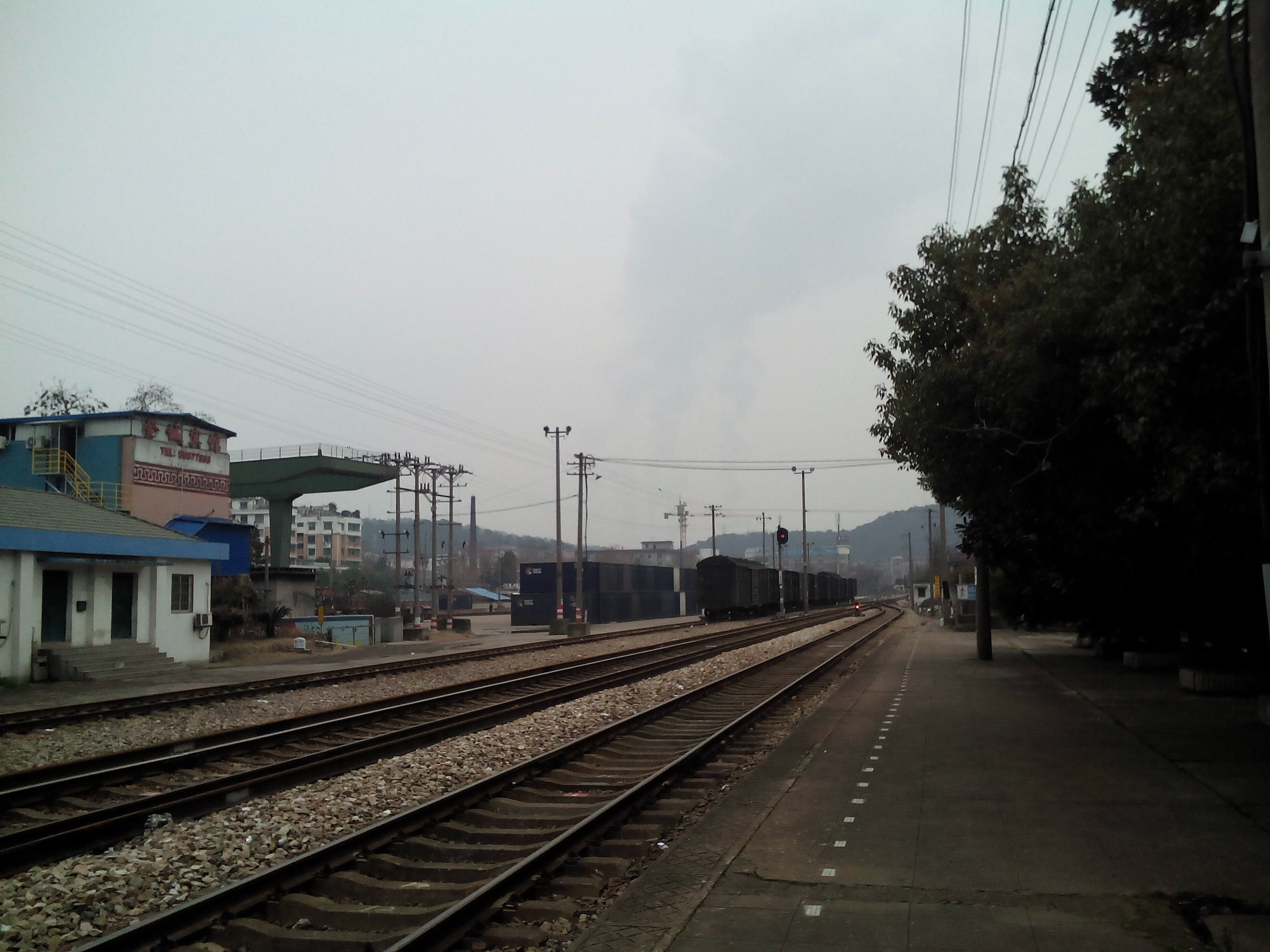 201501 Freight Yard in Lanxi Station